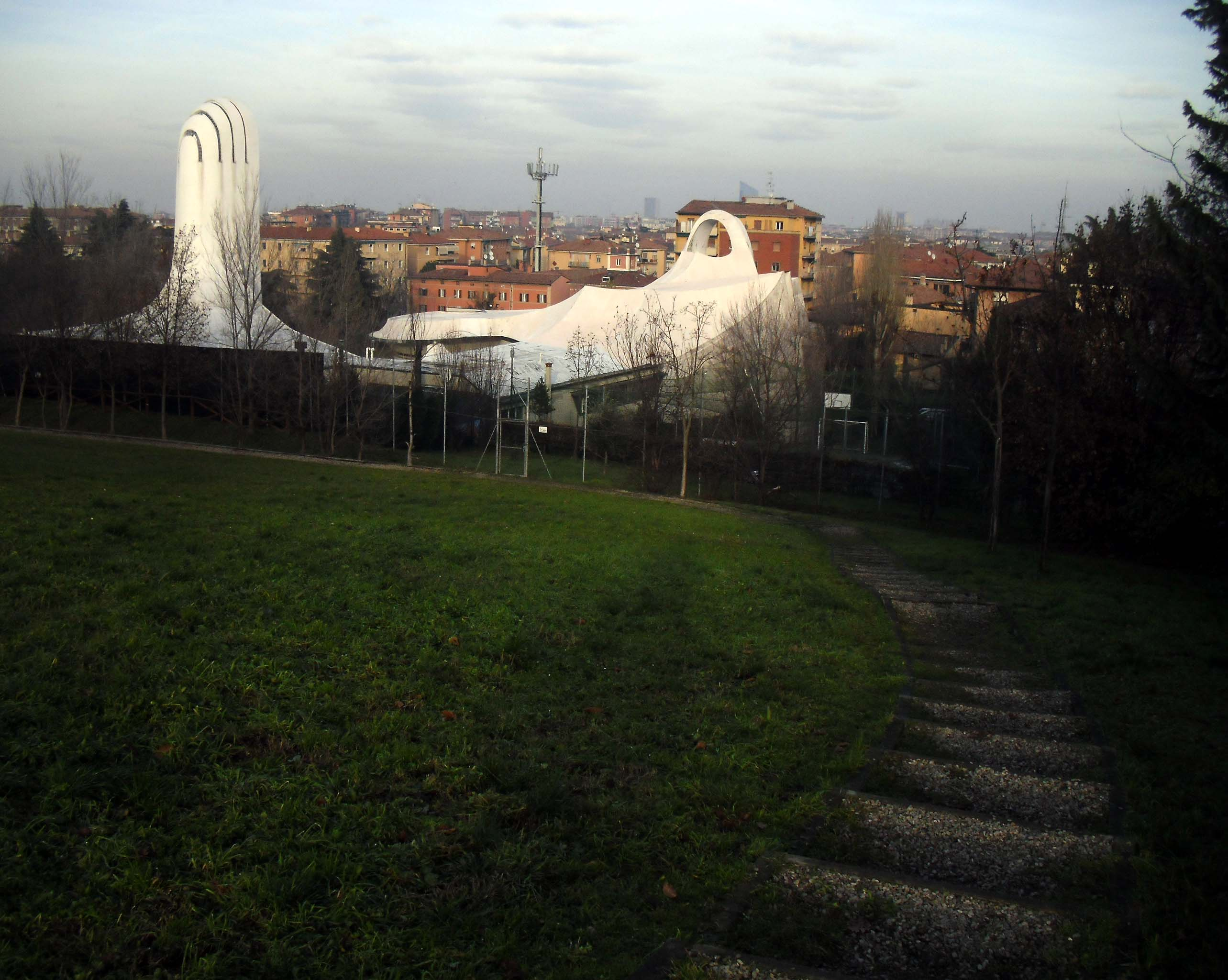 Church Saint Silverio di Chiesa nuova